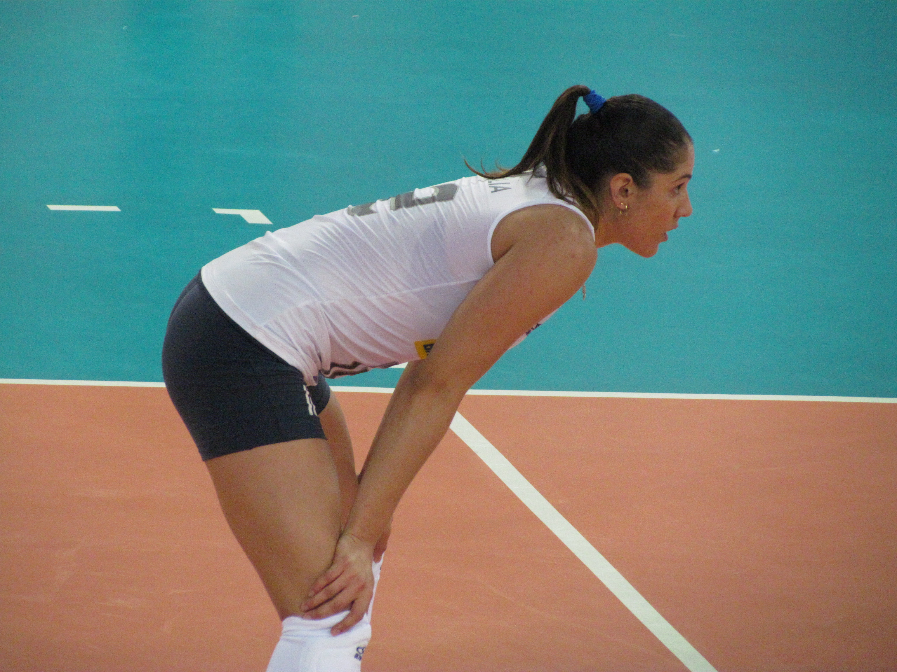 Natália Zilio Pereira, Brazilian volleyball player, gold medalist